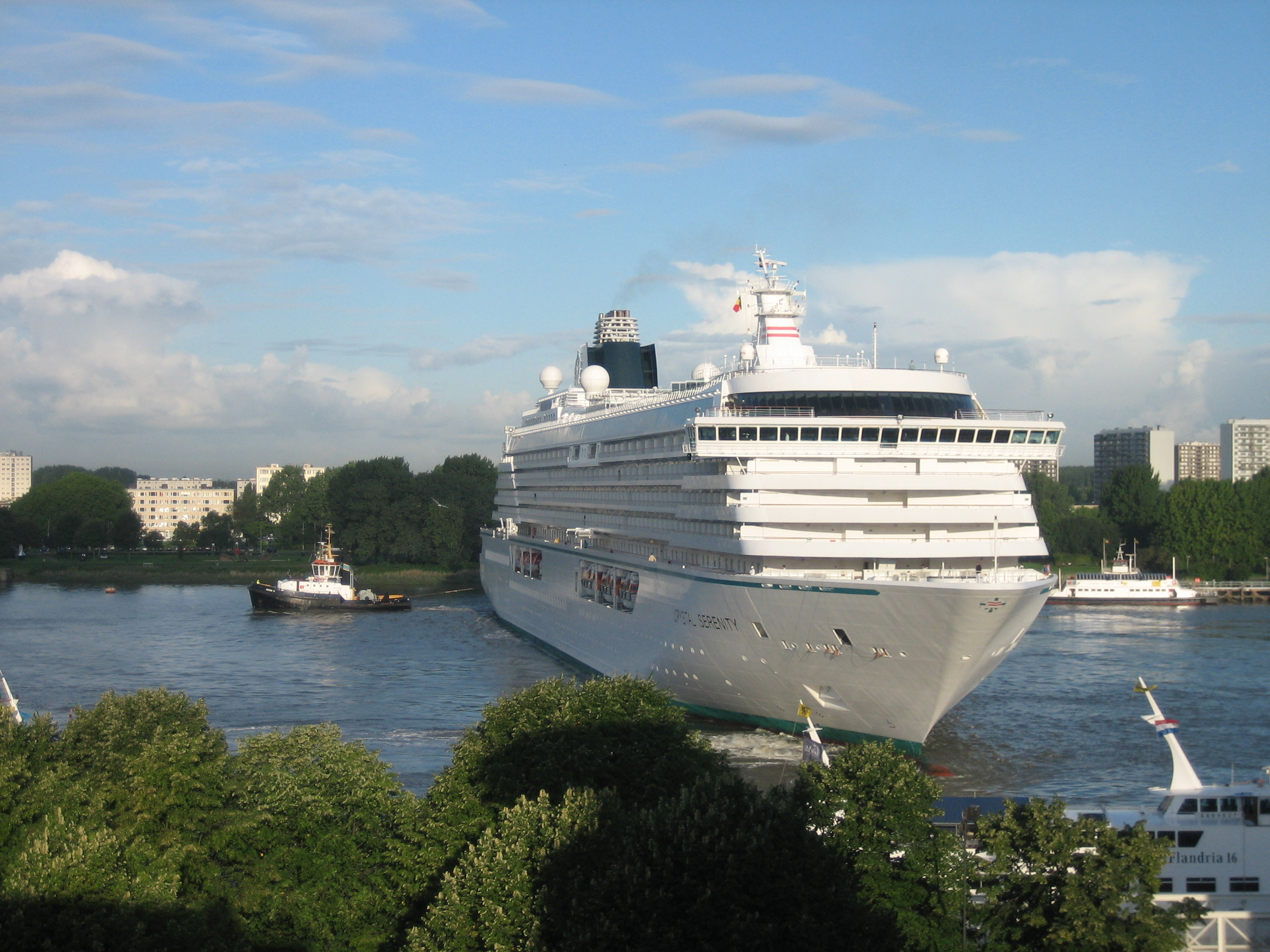 Cruise ship Crystal Serenity, turning for mooring on river Scheldt, Antwerp, with help of tugboat. IMO Number: 9243667 MMSI Number: 311536000 Callsign: C6SY3 Length: 250 m Beam: 32 m